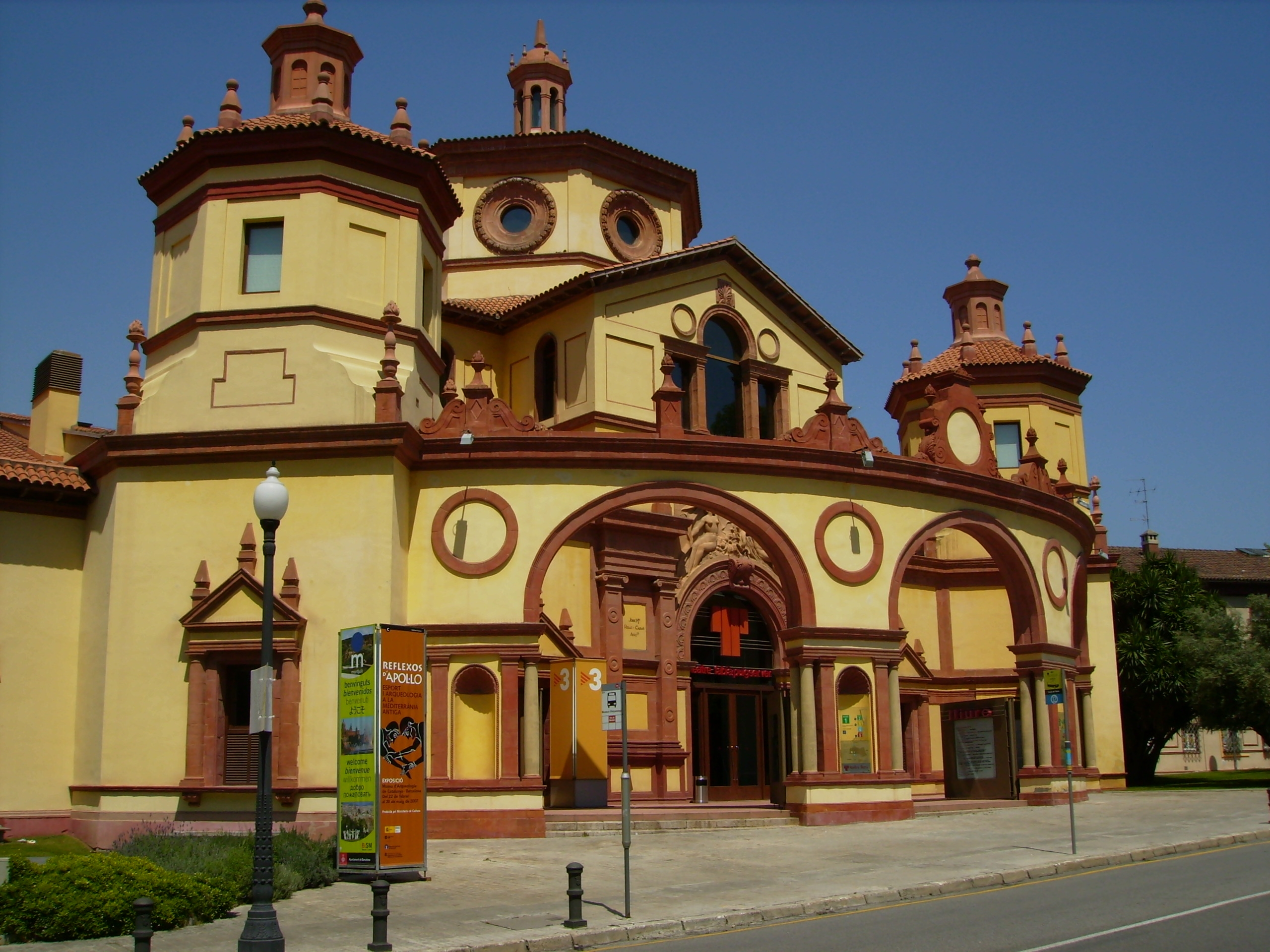 Teatre Lliure - Barcelona (Catalonia)